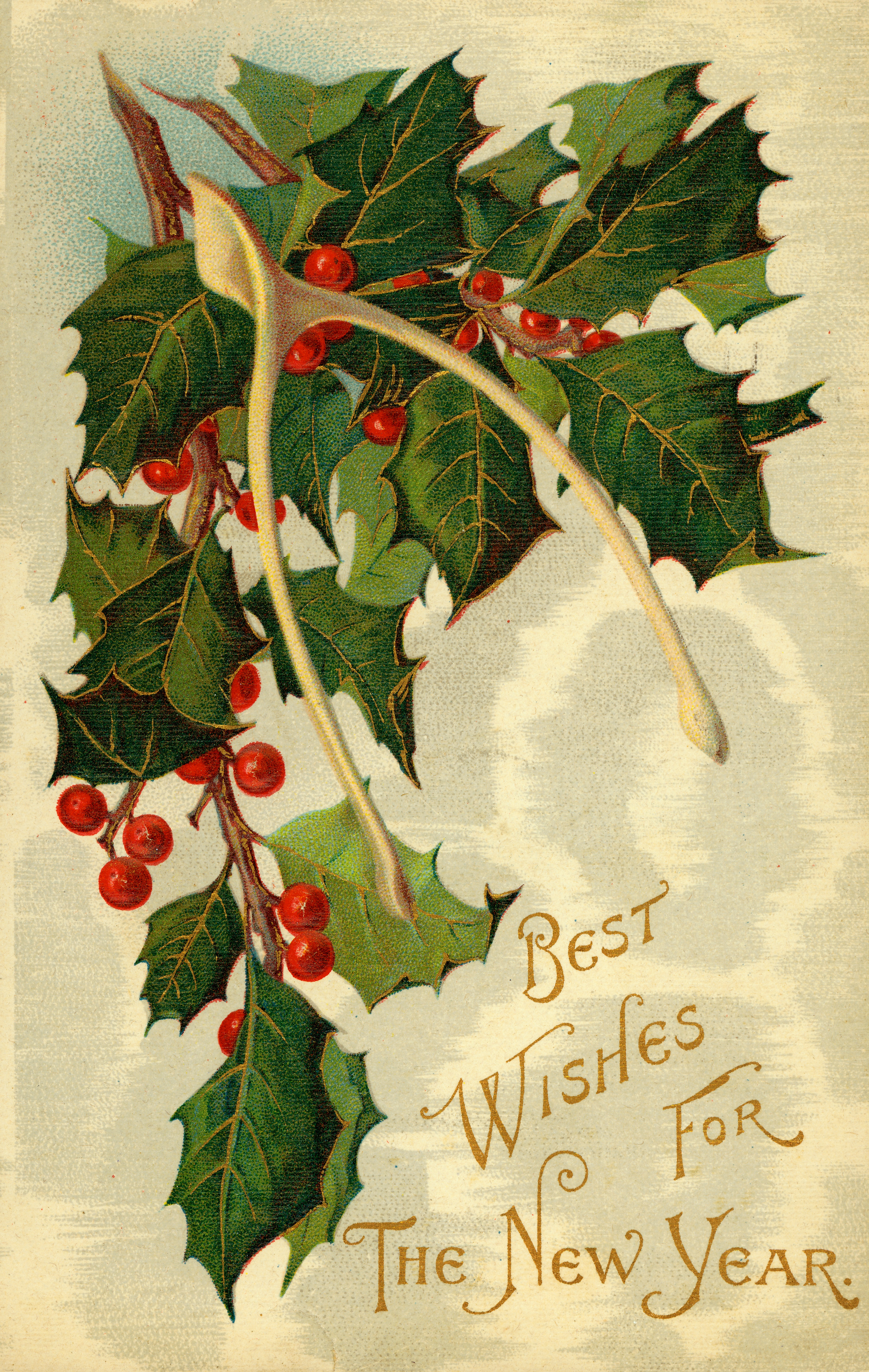 Title: "Best Wishes for The New Year."